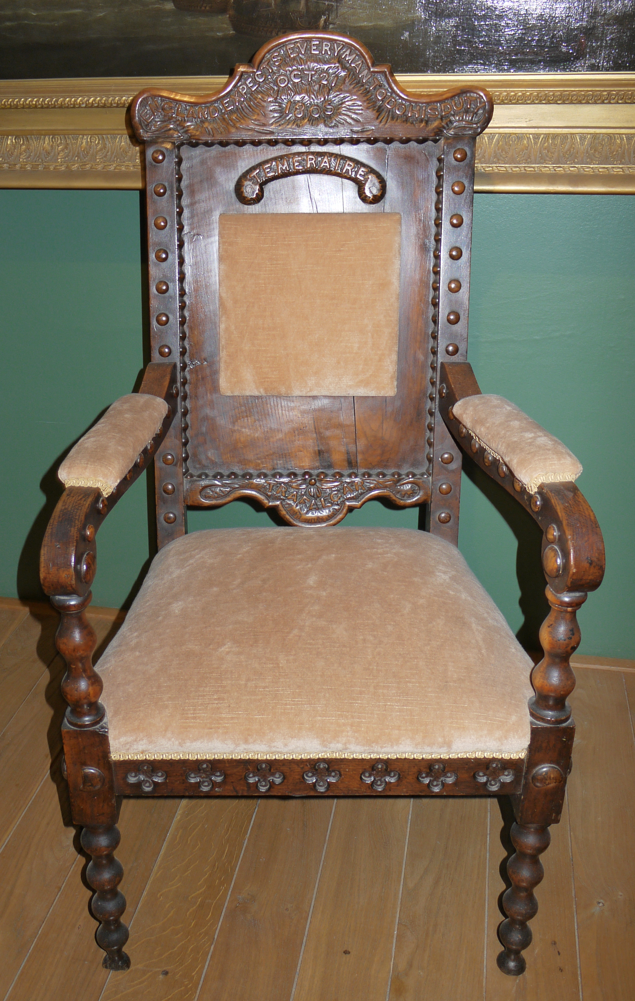 Photo of a chair made from the wood of HMS Temeraire